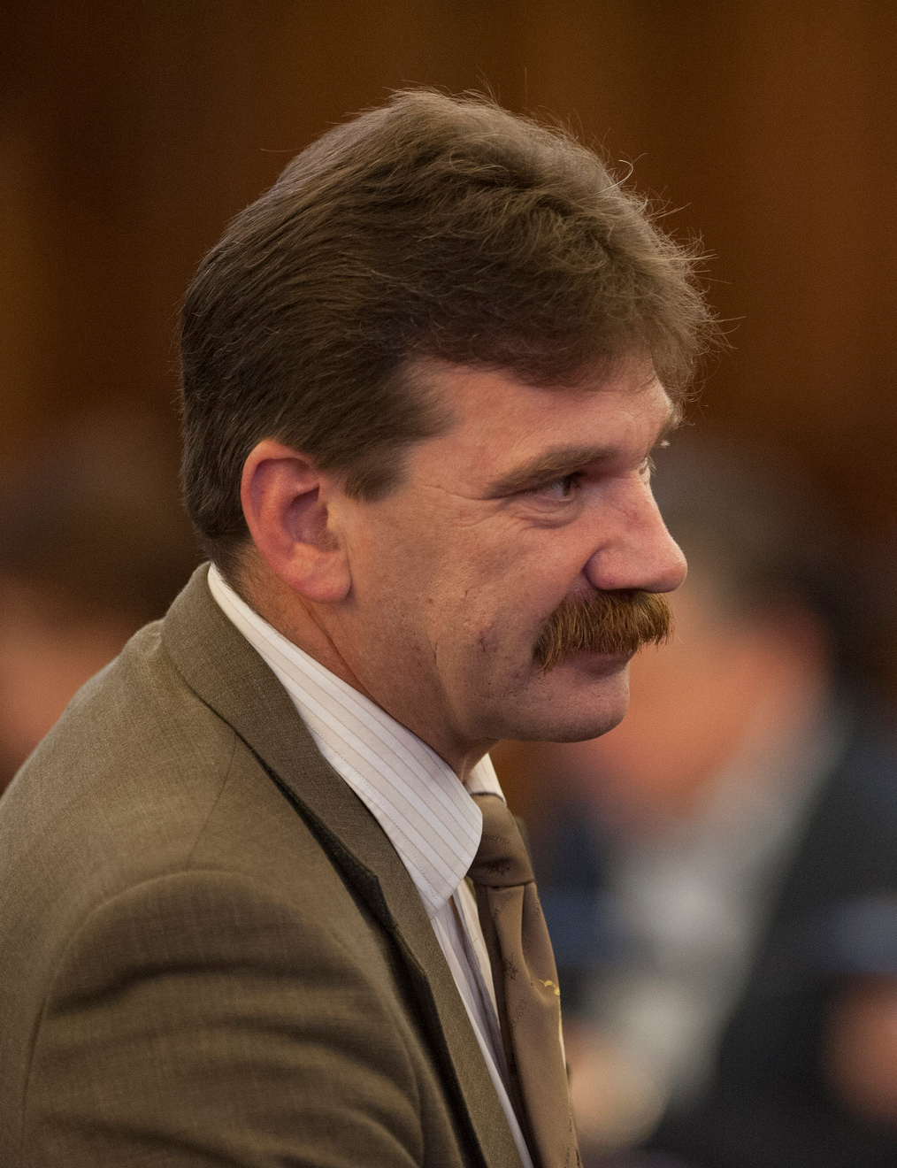 Ingmārs Līdaka in Saeima